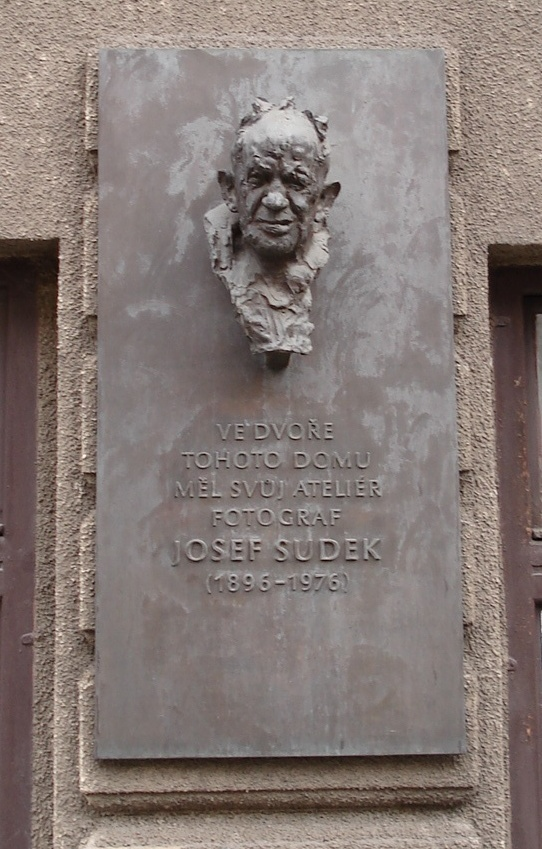 Plaque in memoriam photographer Josef Sudek.